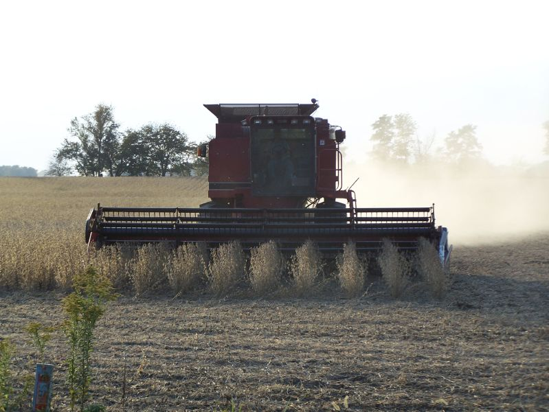 A Case IH combine harvesting soybeans somewhere in Indiana, United States